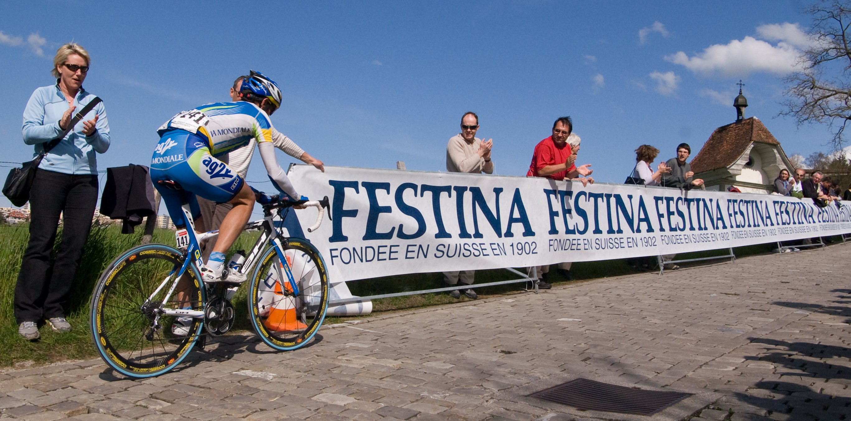 2nd stage of the Tour de Romandie 2008.